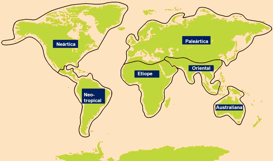 zooregion